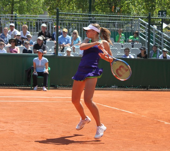 Magda Linette at the French Open during her first qualifying match against Claire de Gubernatis (court 17).